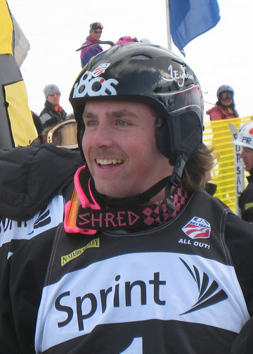 American freestyle skier Patrick Deneen at the 2008 Sprint U.S. Freestyle Championships